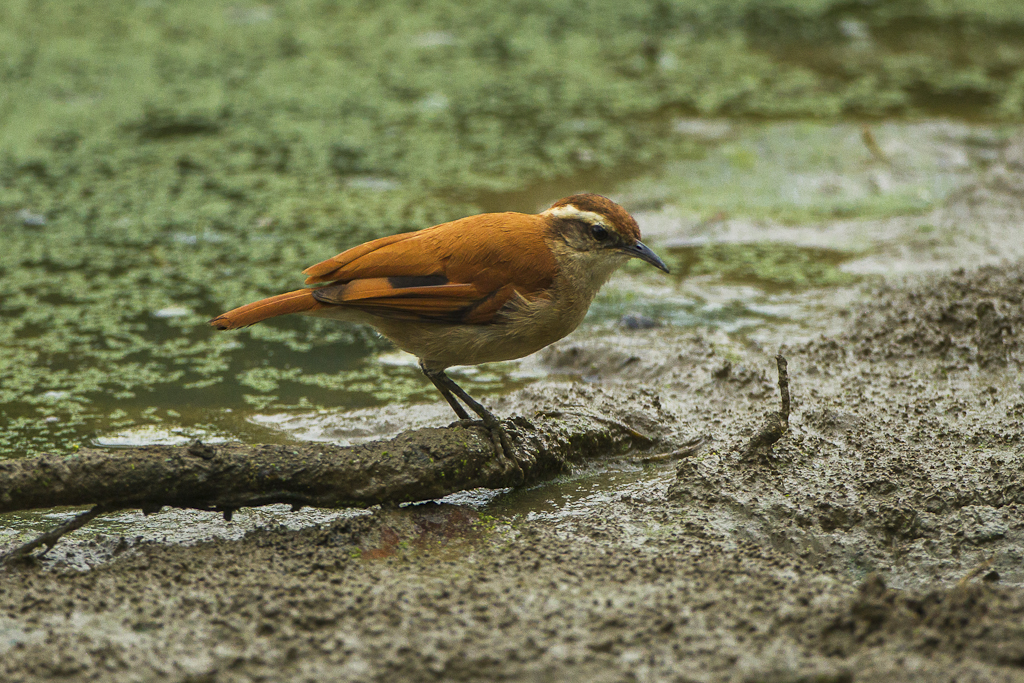 Tail-banded hornero (Furnarius figulus)